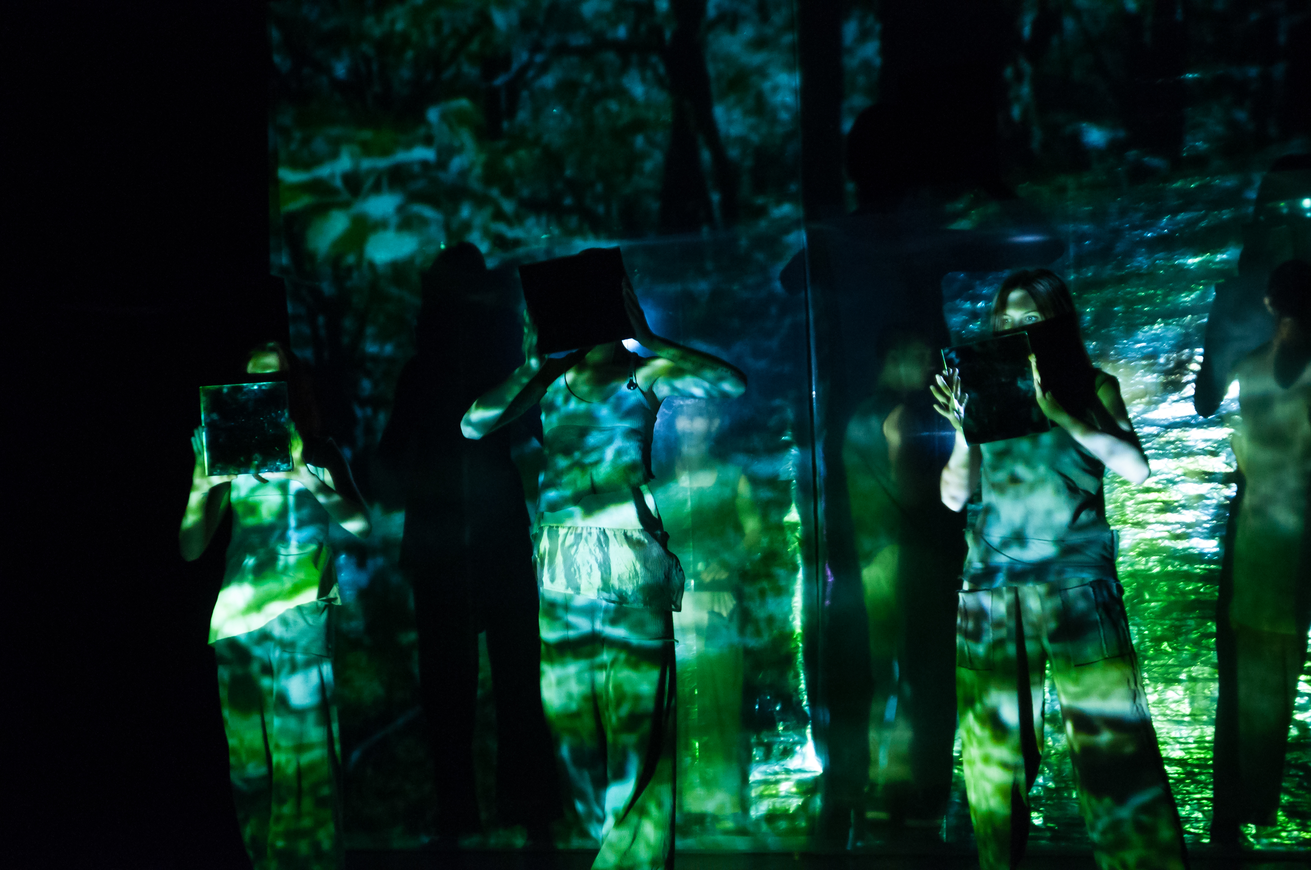 performance on Bitef, Bitef Polyphony 2015